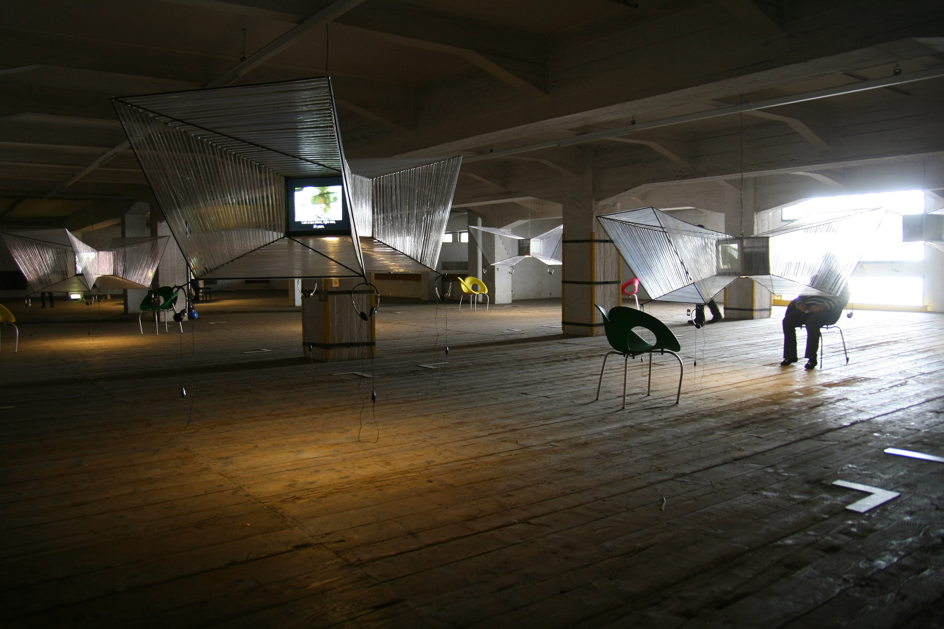 Ars Electronica Festival 2010 at Tabakfabrik in Linz, Upper Austria.